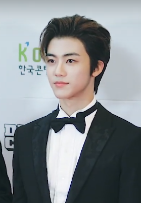 Na Jae-min the 25th DREAM CONCERT